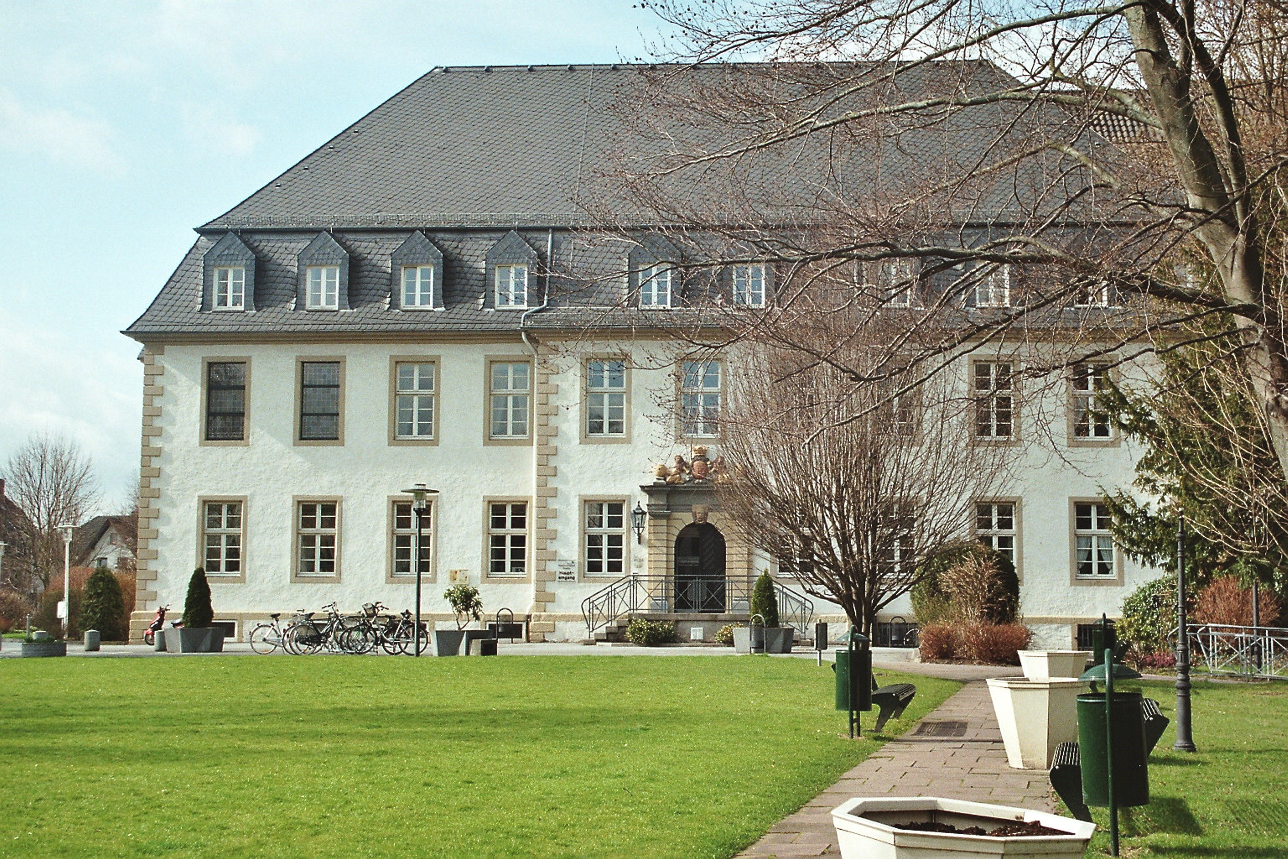 Erwitte, Marien-Hospital This is a photograph of an architectural monument.